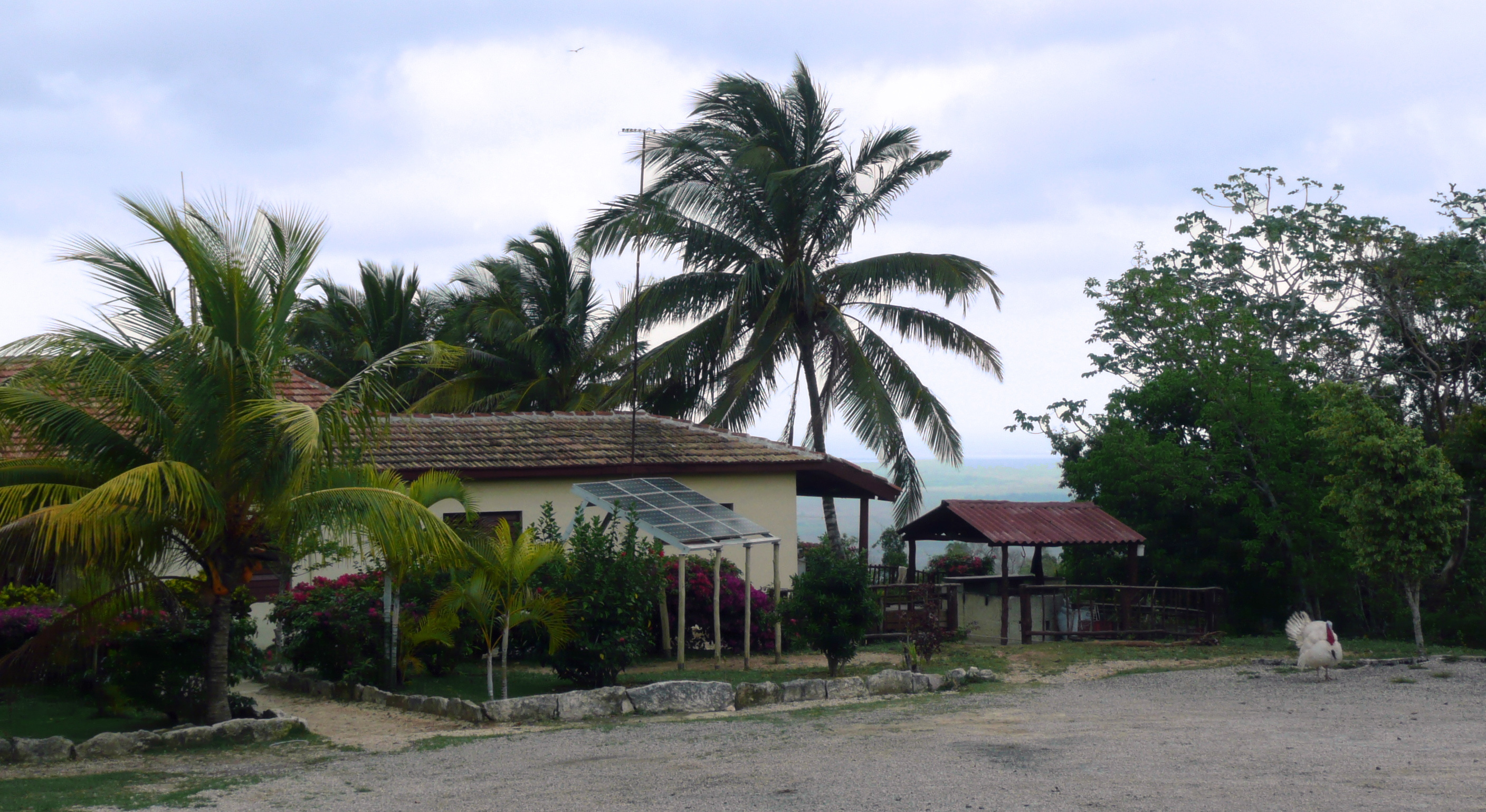 Cuba, Loma de Cunagua Nature reserve. Ecotourism Station w lookout